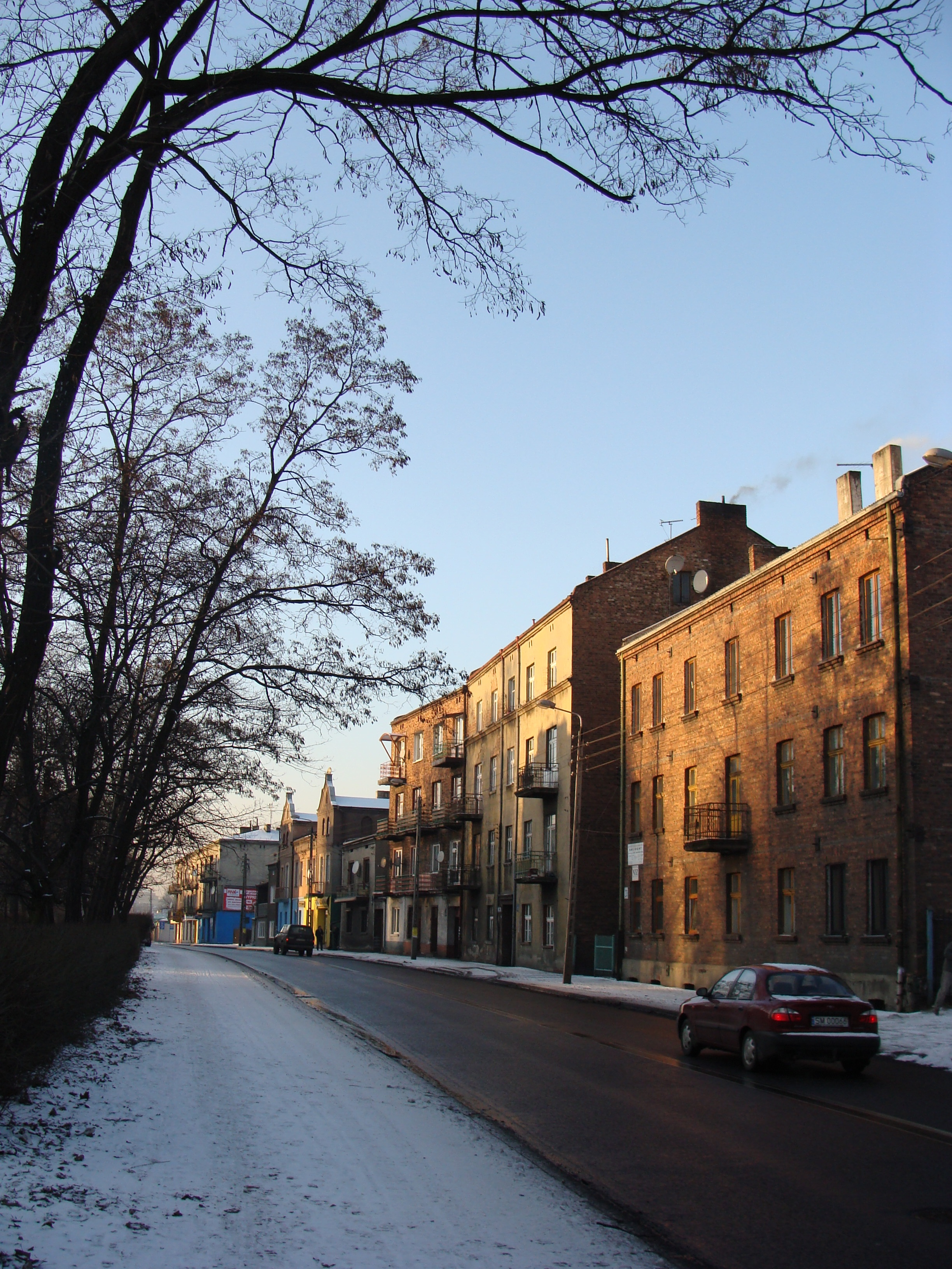 Sosnowiec - Modrzejów Orląt Lwowskich Street